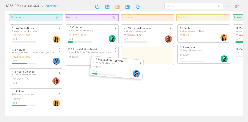 Exemplo de kanban em um software de gerenciamento de projetos.